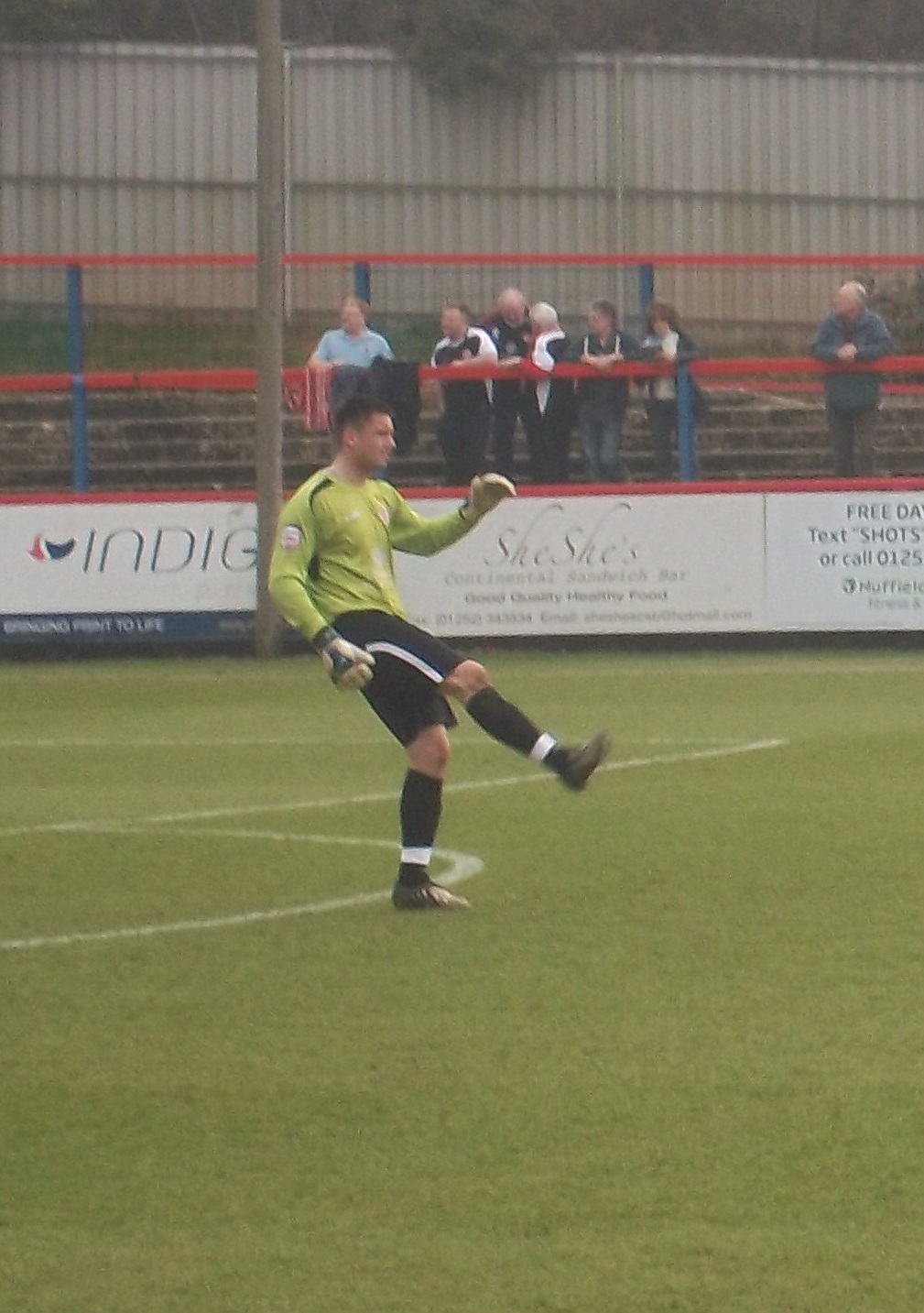 Footballer Alex Cisak